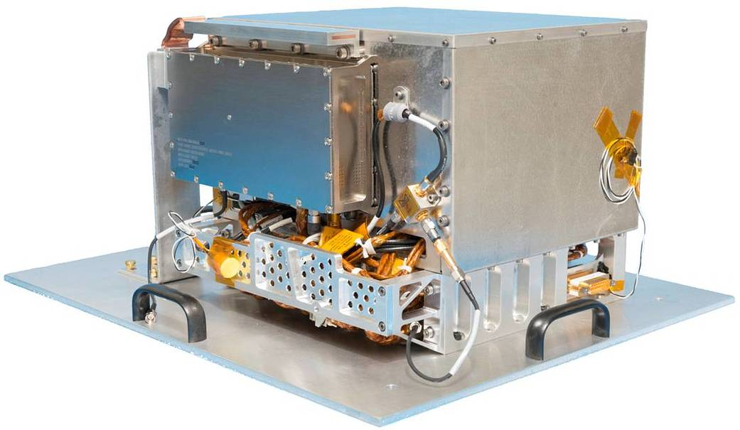 Deep Space Atomic Clock experiment, built by Jet Propulsion Laboratory